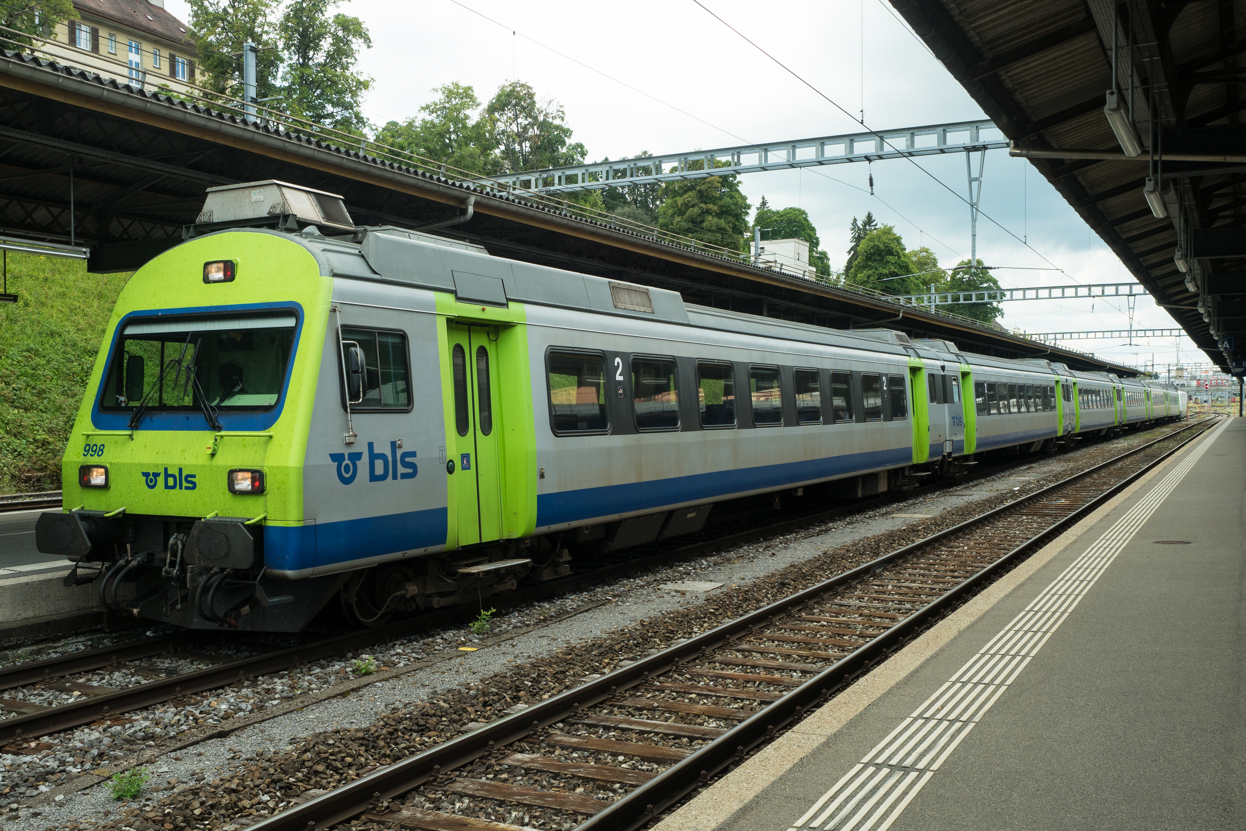 TRANSJURA 26.07.2016